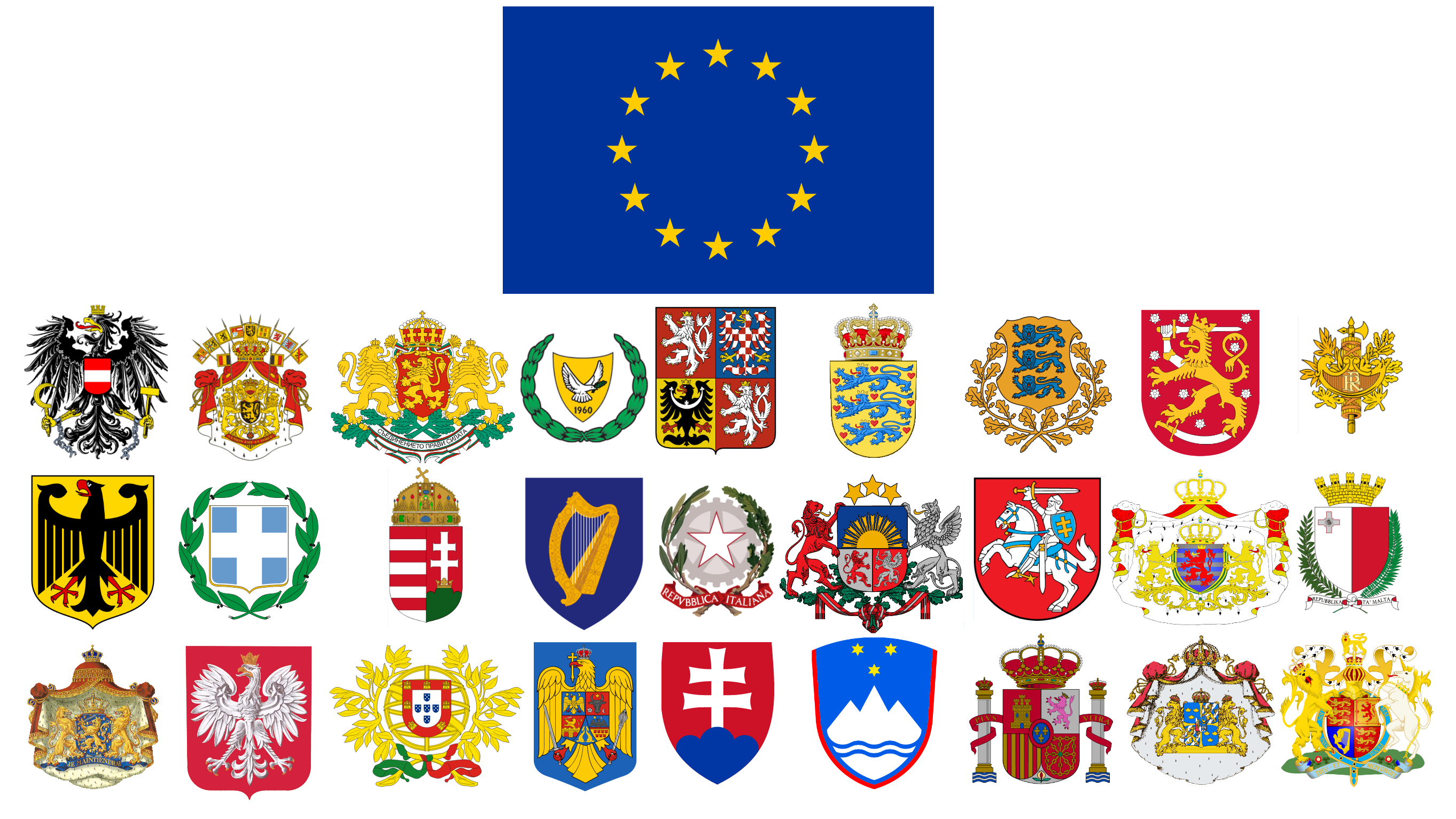 Coats of Arms of the European Union